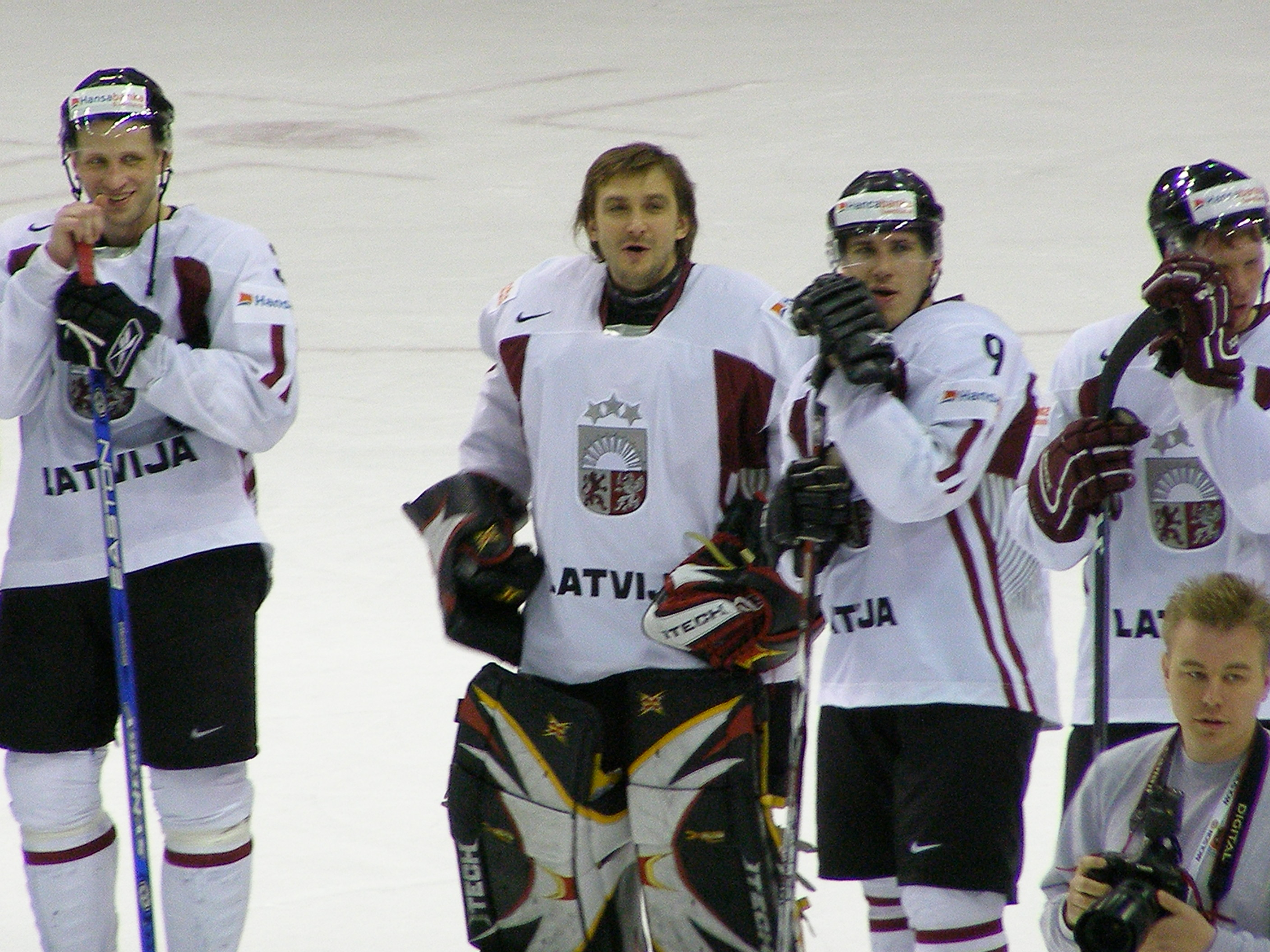 Latvia VS Norway (IIHF World Hockey Championship in Halifax NS, May 11 2008)